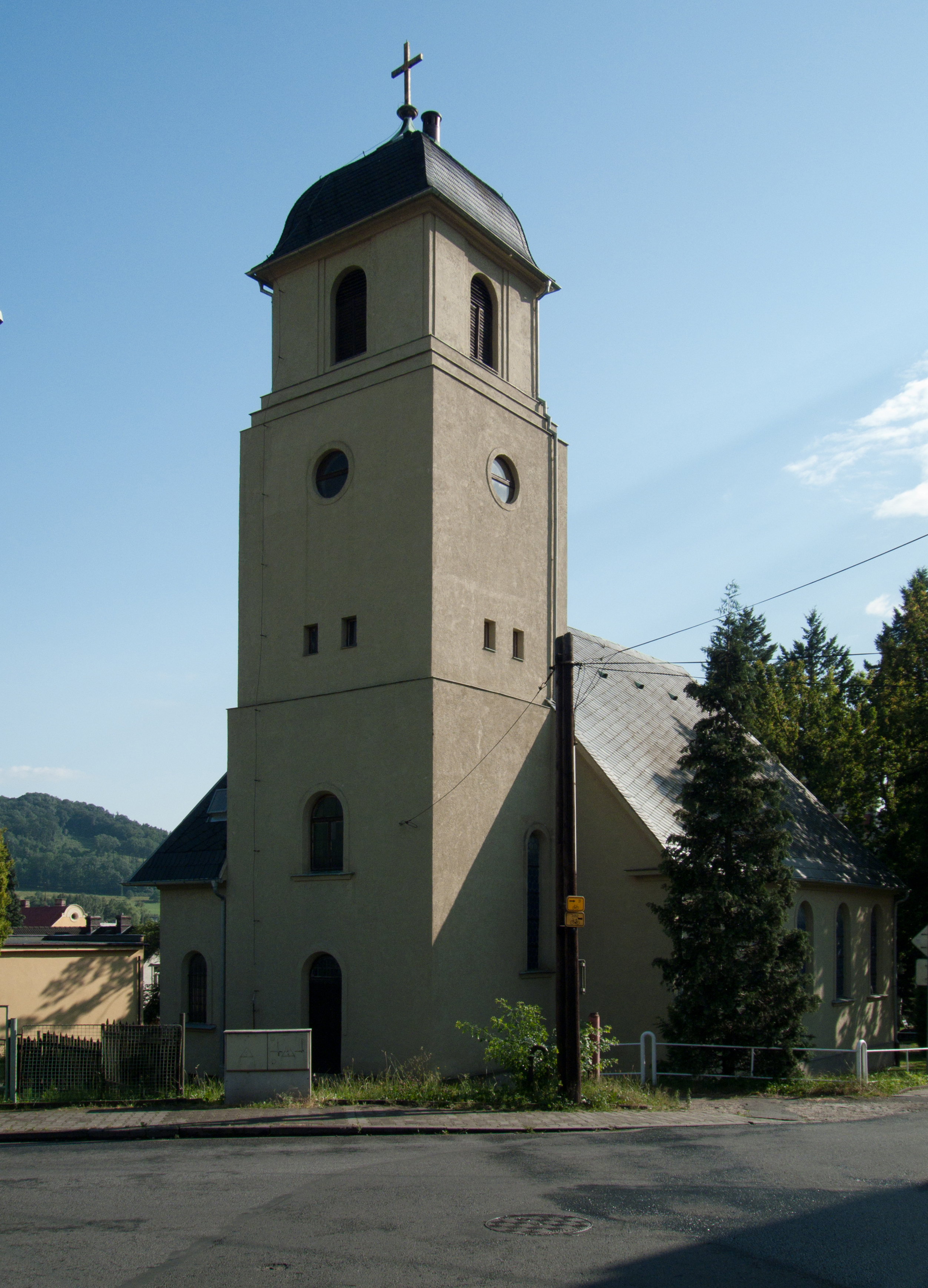 Evangelic church in the town of Česká Kamenice, Ústí nad Labem Region, Czech Republic as seen from the north